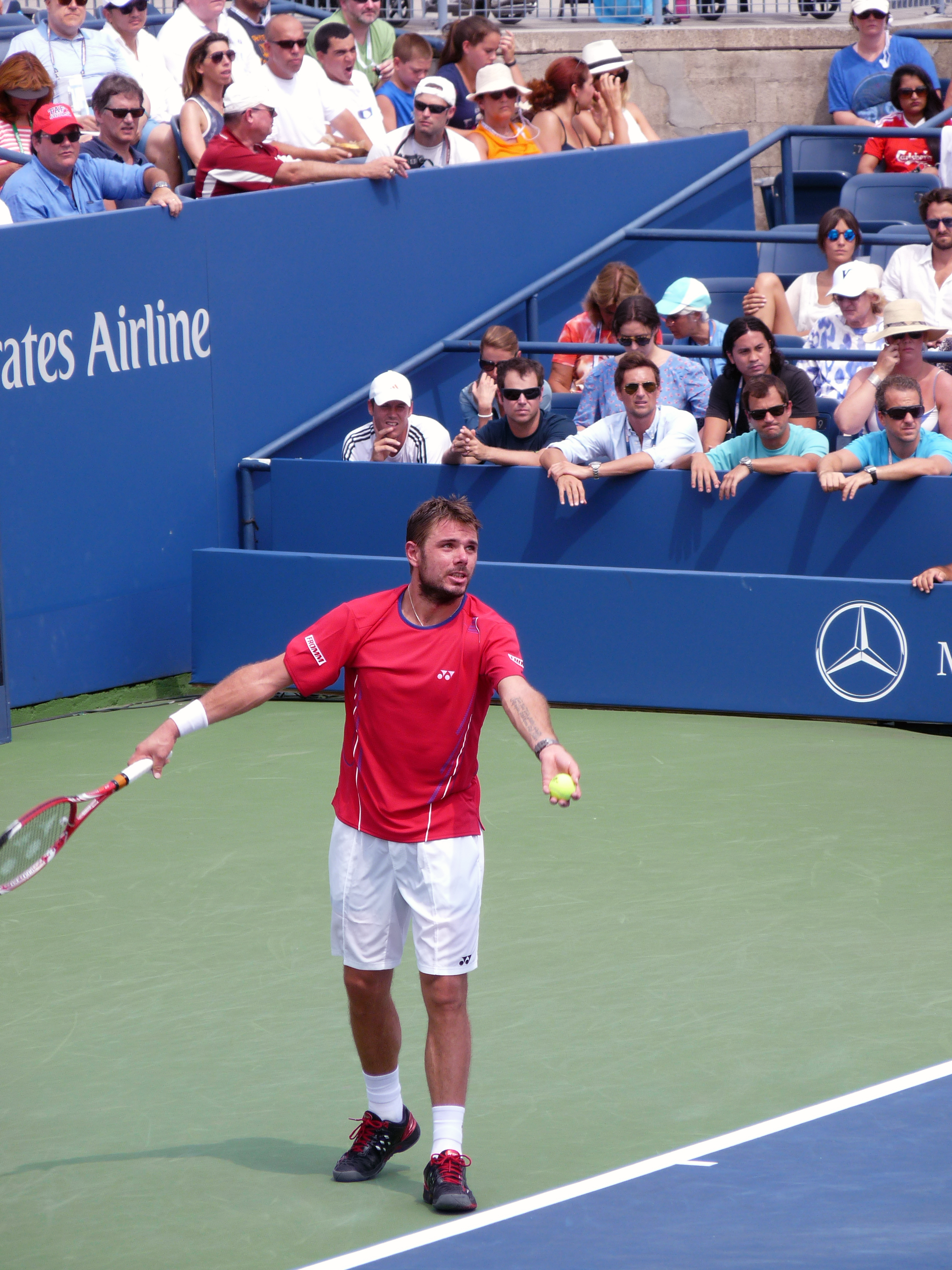 US Open 2013 – Men's Singles 3rd Round (Louis Armstrong Stadium) – Stanislas Wawrinka [9] vs. Cyprus Marcos Baghdatis: 6–3, 6–2, 61–7, 7–67